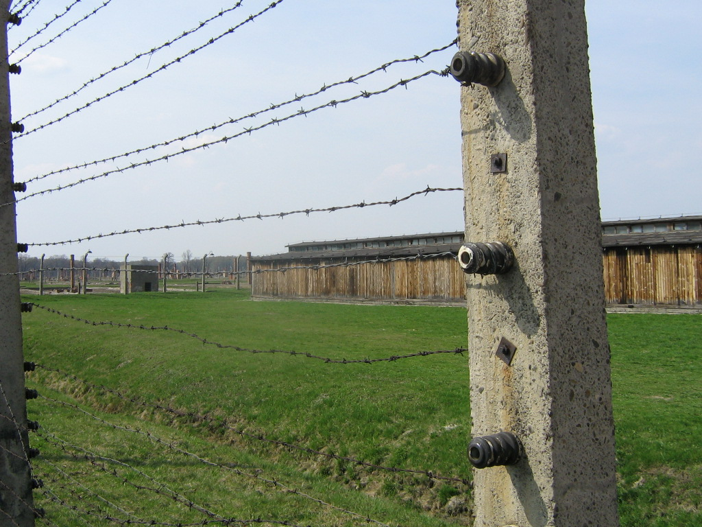 Electric fence at Birkenau.